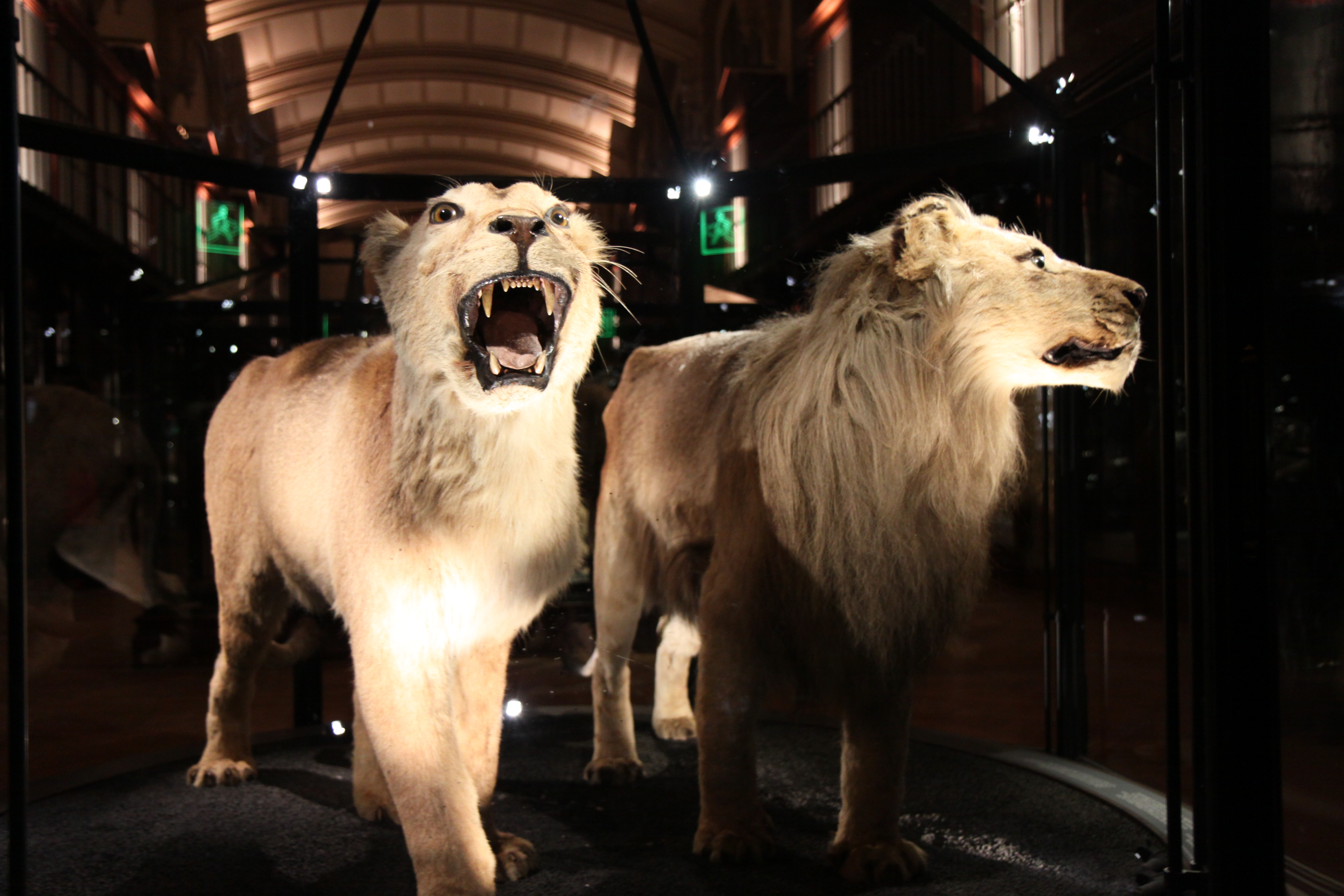 Barbary Lion (Panthera leo leo) and Cape lion (Panthera leo melanochaita) in Muséum National d'Histoire Naturelle in Paris, France.